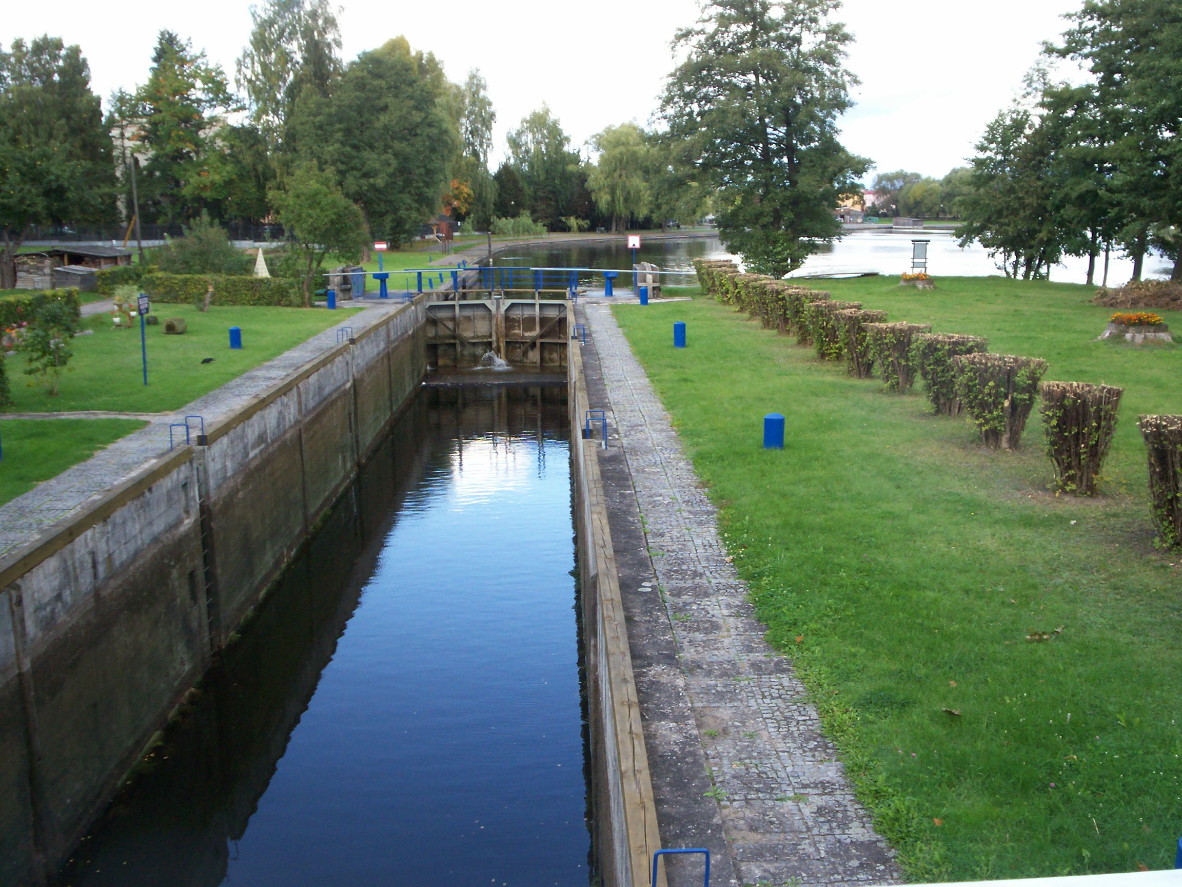 Augustów Canal in Augustów, lock Augustów.